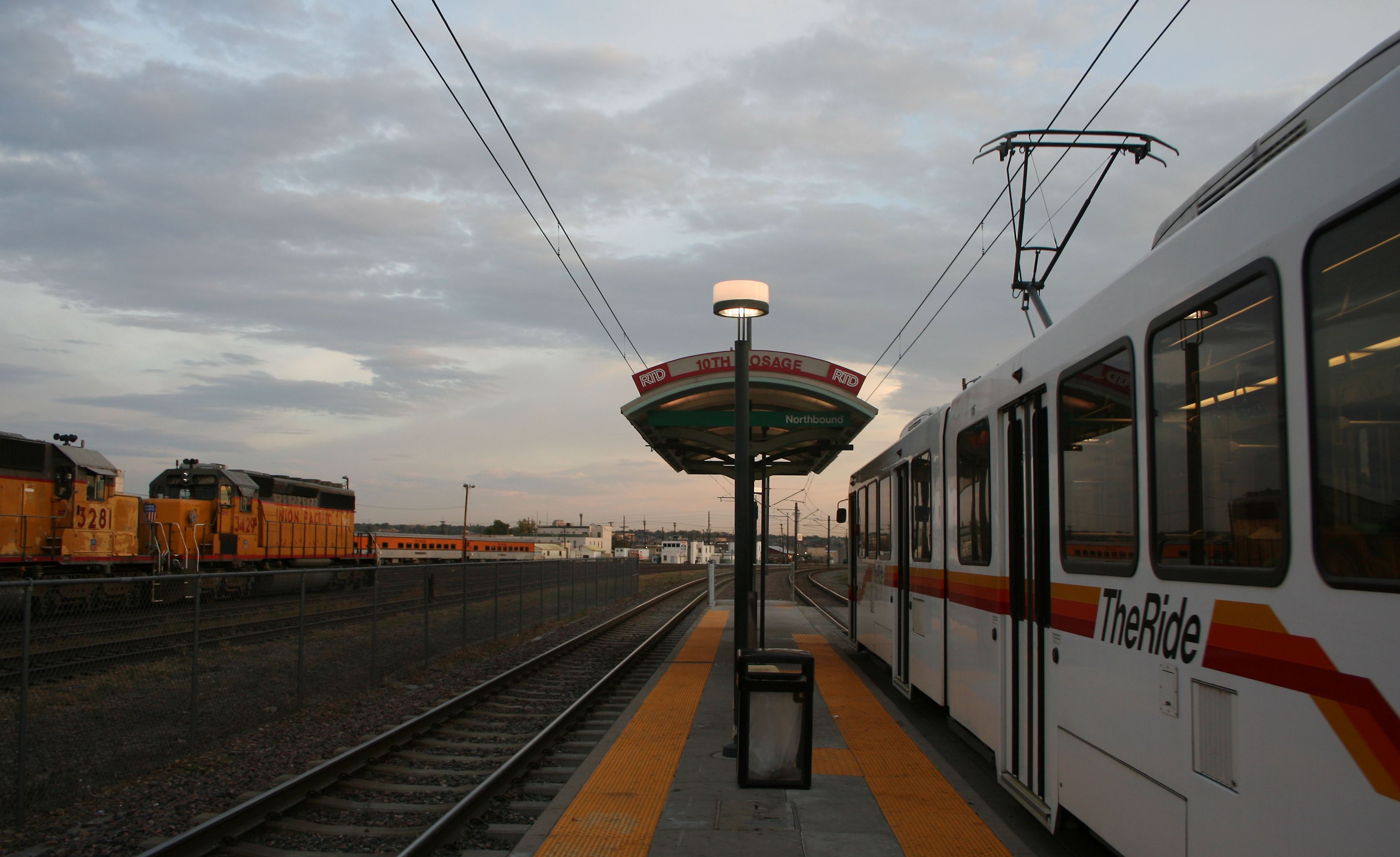 The 10th and Osage RTD light rail stop in Denver, Colorado. The Burnham Rail Shops/Yard is on the left.